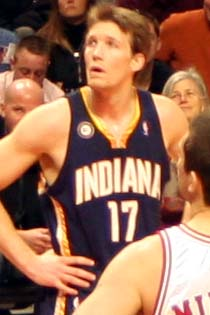 Mike Dunleavy, Jr of the Indiana Pacers vs Chicago Bulls, December 2009